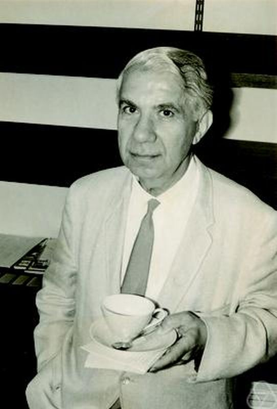 Alexander Dinghas, Erlangen 1967